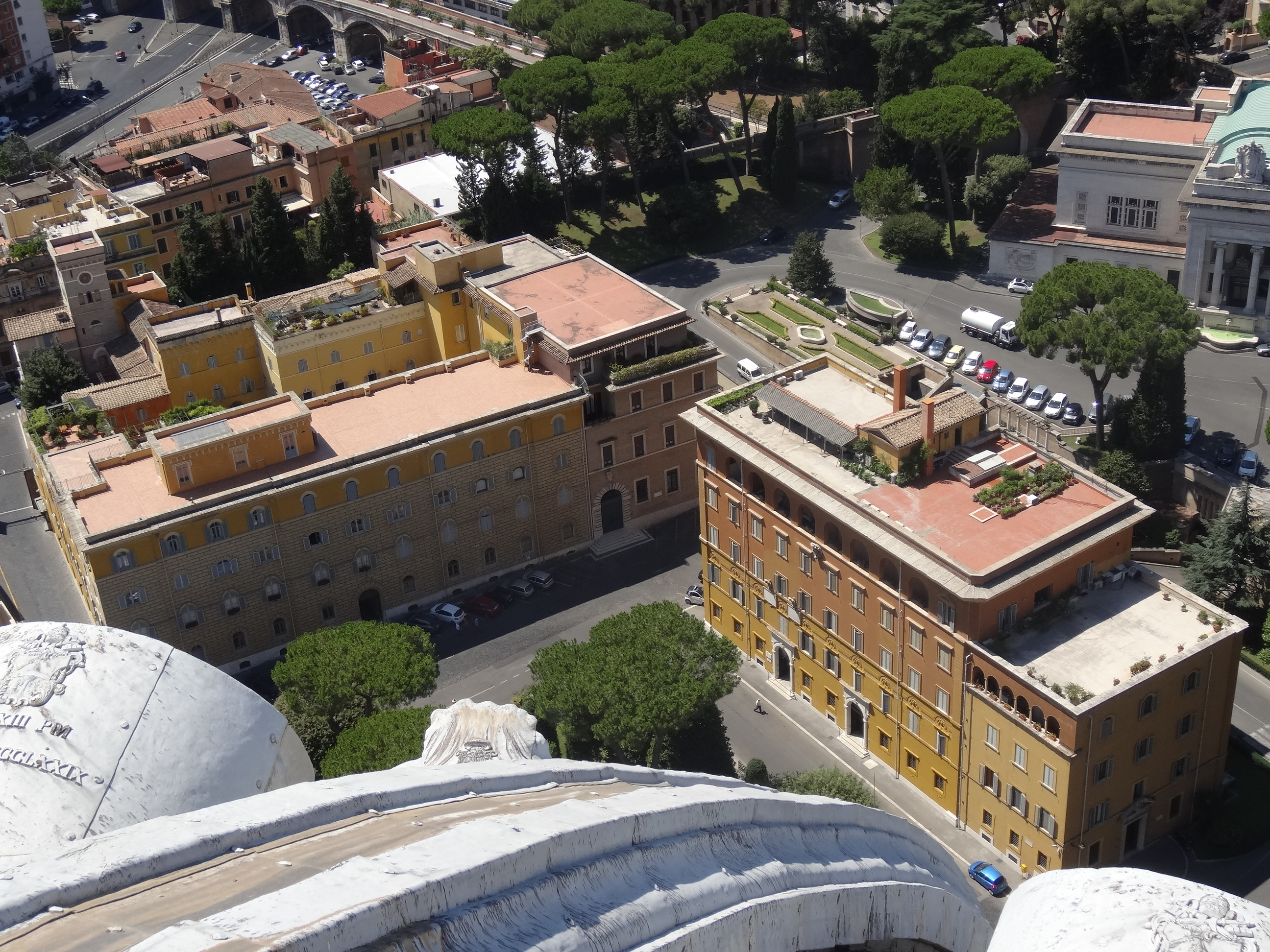 Views from the dome of Saint Peter's Basilica. August 2016. At the left, Palace of San Carlo and Residence of the Archpriest. At the right, Palace of the Tribunal (central Office of the Vatican Gendarmerie).